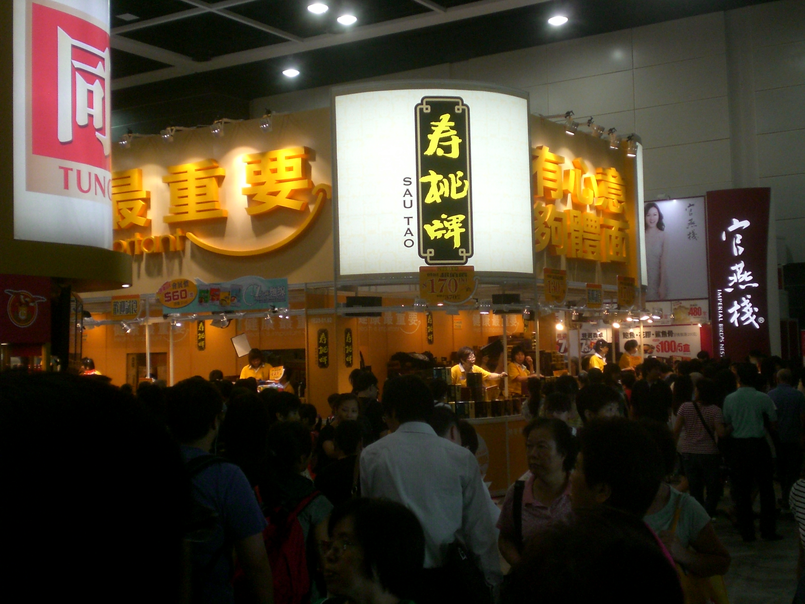 灣仔香港美食博覽 香港會議展覽中心 內景觀 盛會 參展商zh:攤位 香港展覽 新順福zh:壽桃牌